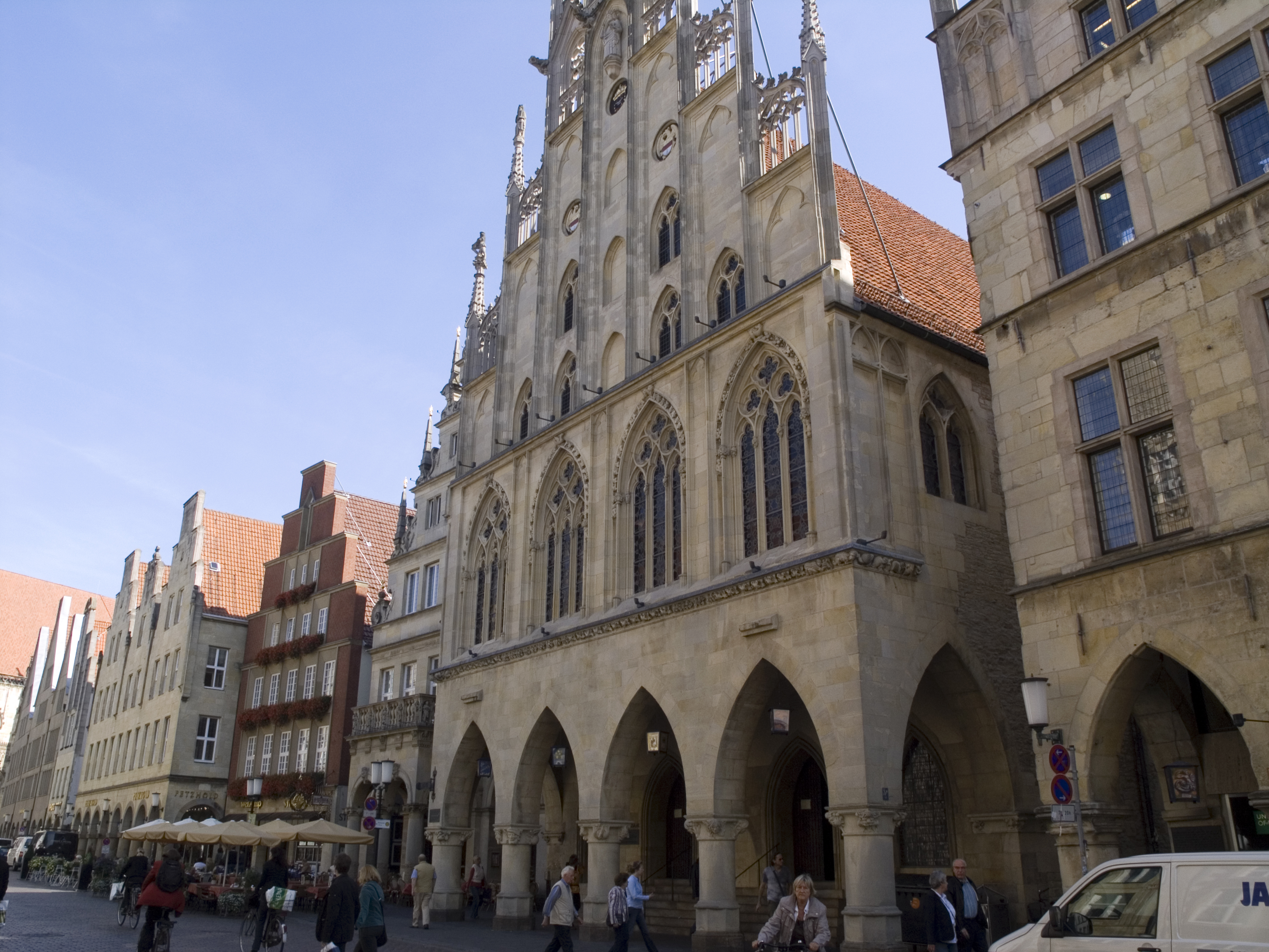 NRW, Munster, Altstadt, Prinzipalmarkt, Rathaus